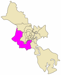 position of Binh Chanh district in an outline of the metropolitan area of HCMC (Ho Chi Minh City, Vietnam) - ISO code VN-F-HC. Keywords: map, outline, city, Ho Chi Minh City, HCMC, HCM, Binh Chan district, huyen Binh Chan.